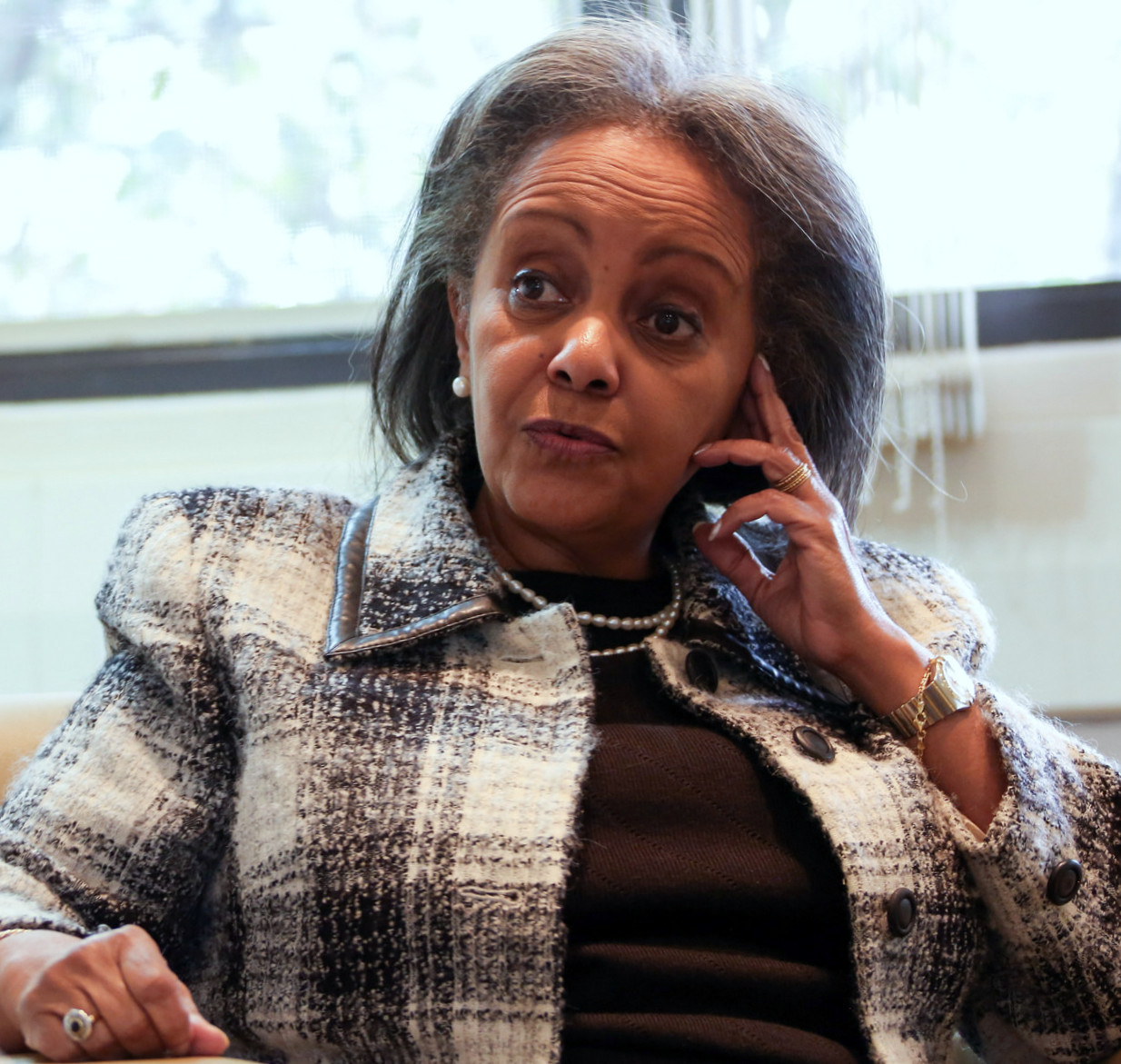 Sahle-Work Zewde